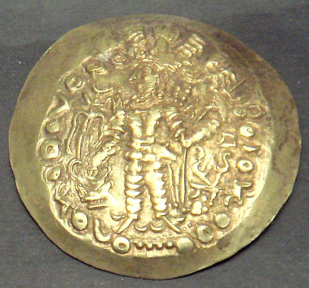 Indo-Sassanian coin. Musee Guimet. Personal photograph 2006.